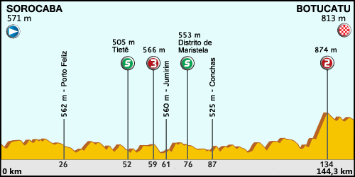 Profile of the 2nd stage of the 2014 Volta Ciclística de São Paulo